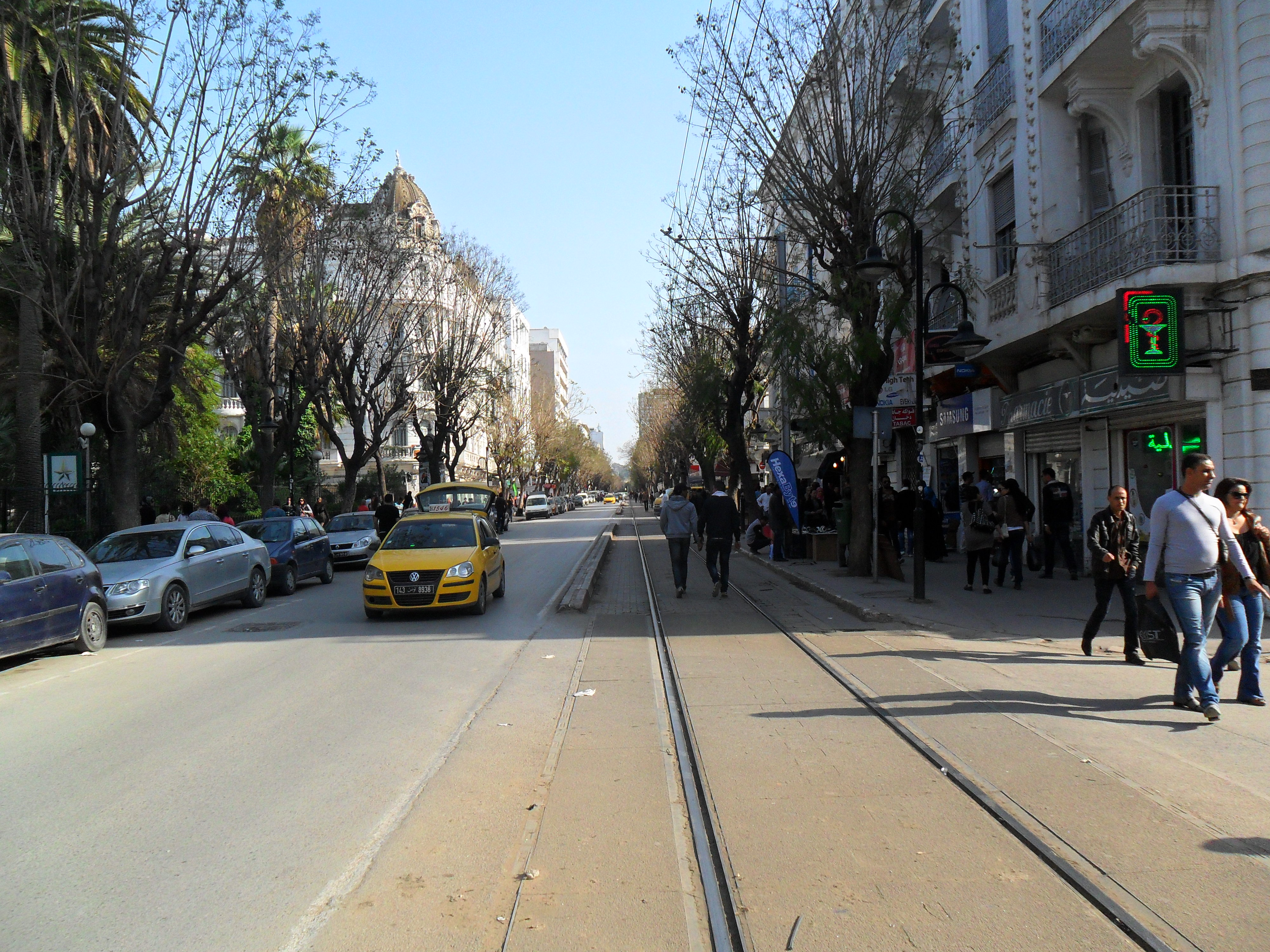 Paris Street, Tunis